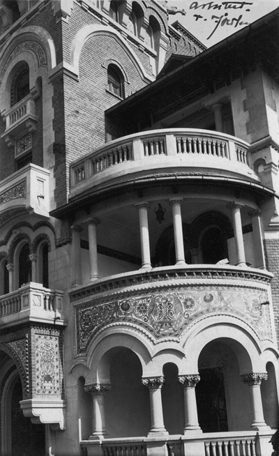 Villa D. Ionescu, built in 1927 by architect Toma T. Socolescu on the Strada Mihai Cogălniceanu (there are also spelling Kogălniceanu) Soseaua Kiseleff. The street now called Strada Gheorghe Brătianu. The villa is located at number 26. The house is classified historical monument. We are the only heirs and descendants of Toma T. Socolescu (died in 1960 in Bucharest) and therefore owner of all his intellectual rights.